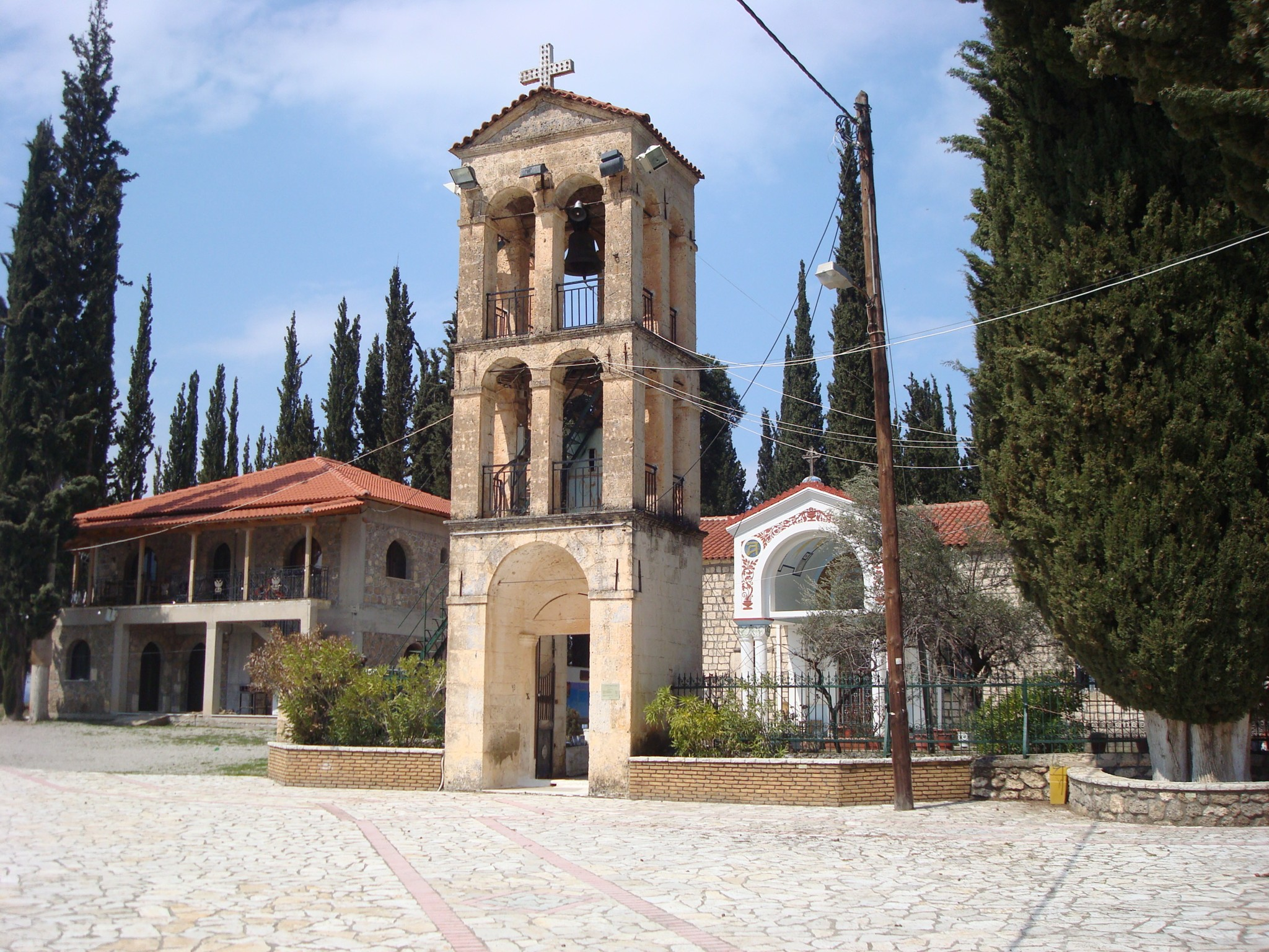 The monastery of Virgin Mary at Monastiri village (Vergouvitsa) at Achaea prefecture, Greece